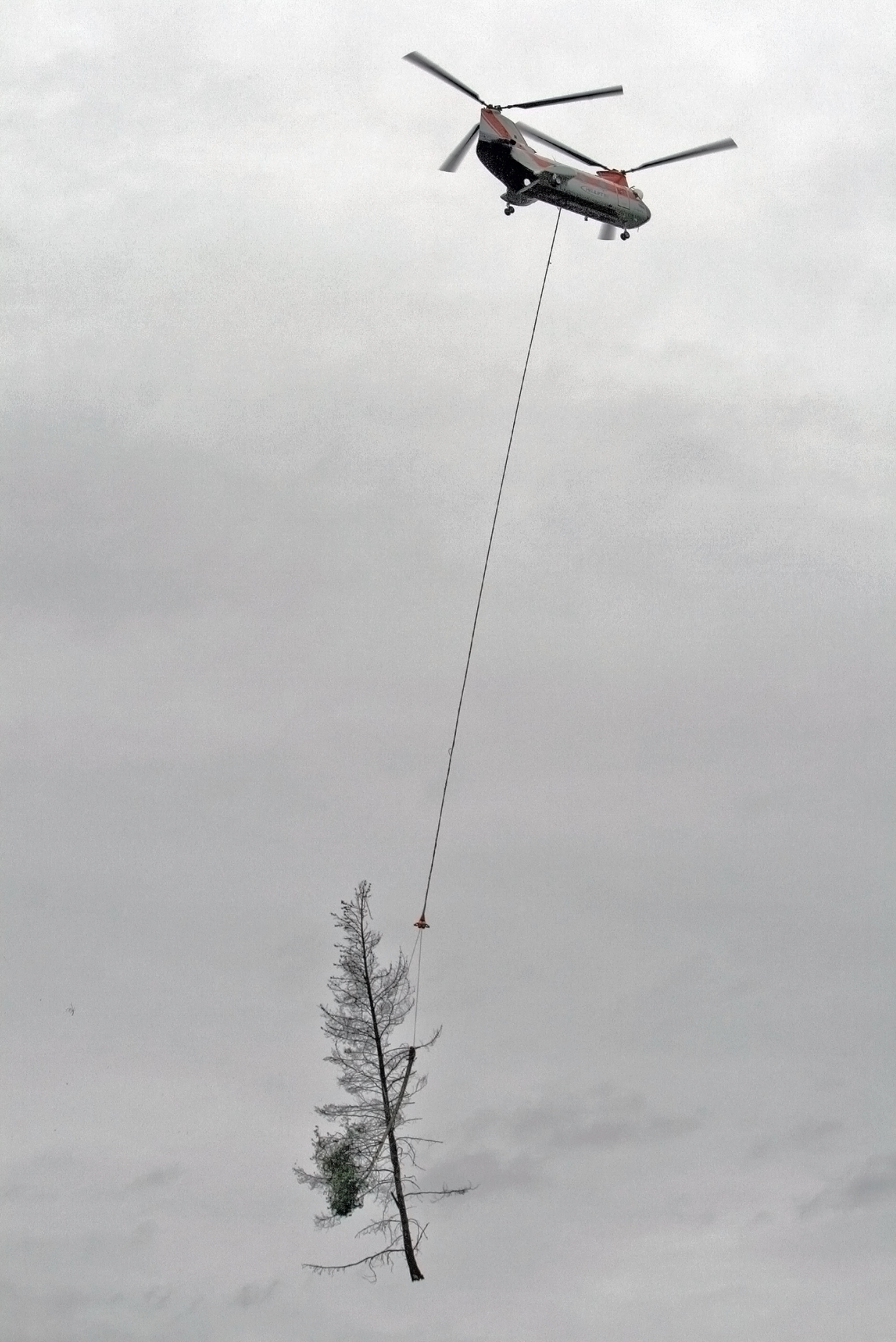 A tandem rotor helicopter places several logs at a designated spot in the Lower Williamson River near Collier State Park in south central Oregon.